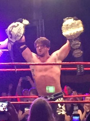 AJ Styles